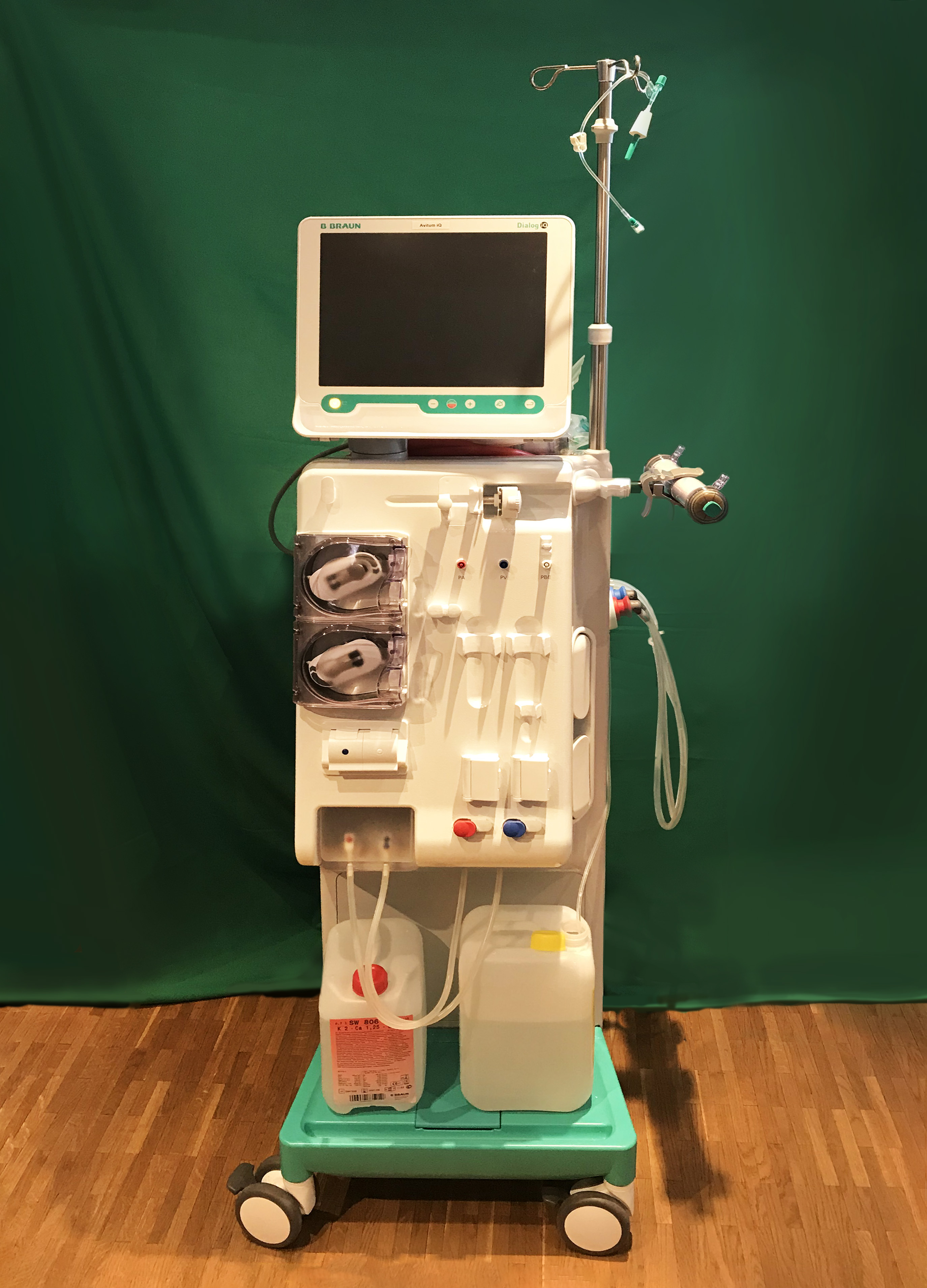 A dialysis machine is used for implementing and monitoring hemodialysis treatment for patients with acute or chronic kidney failure. This model is the Dialog dialysis machine, made by B. Braun.